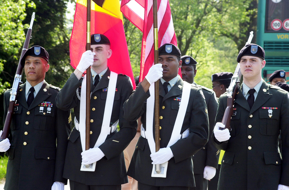 Army Sgt. Edward Murray, Spcs. Clint McKinley and Terrence Hicks, and Pfc. Kevin McPherson, assigned to Landstuhl Regional Medical Center, in Germany, served as the color guard for an April 28 ceremony in Wereth, Belgium. The ceremony commemorated 11 black soldiers assigned to the 333rd Field Artillery Battalion during World War II who were killed by the German SS on Dec. 17, 1944, during the early stages of the Battle of the Bulge.